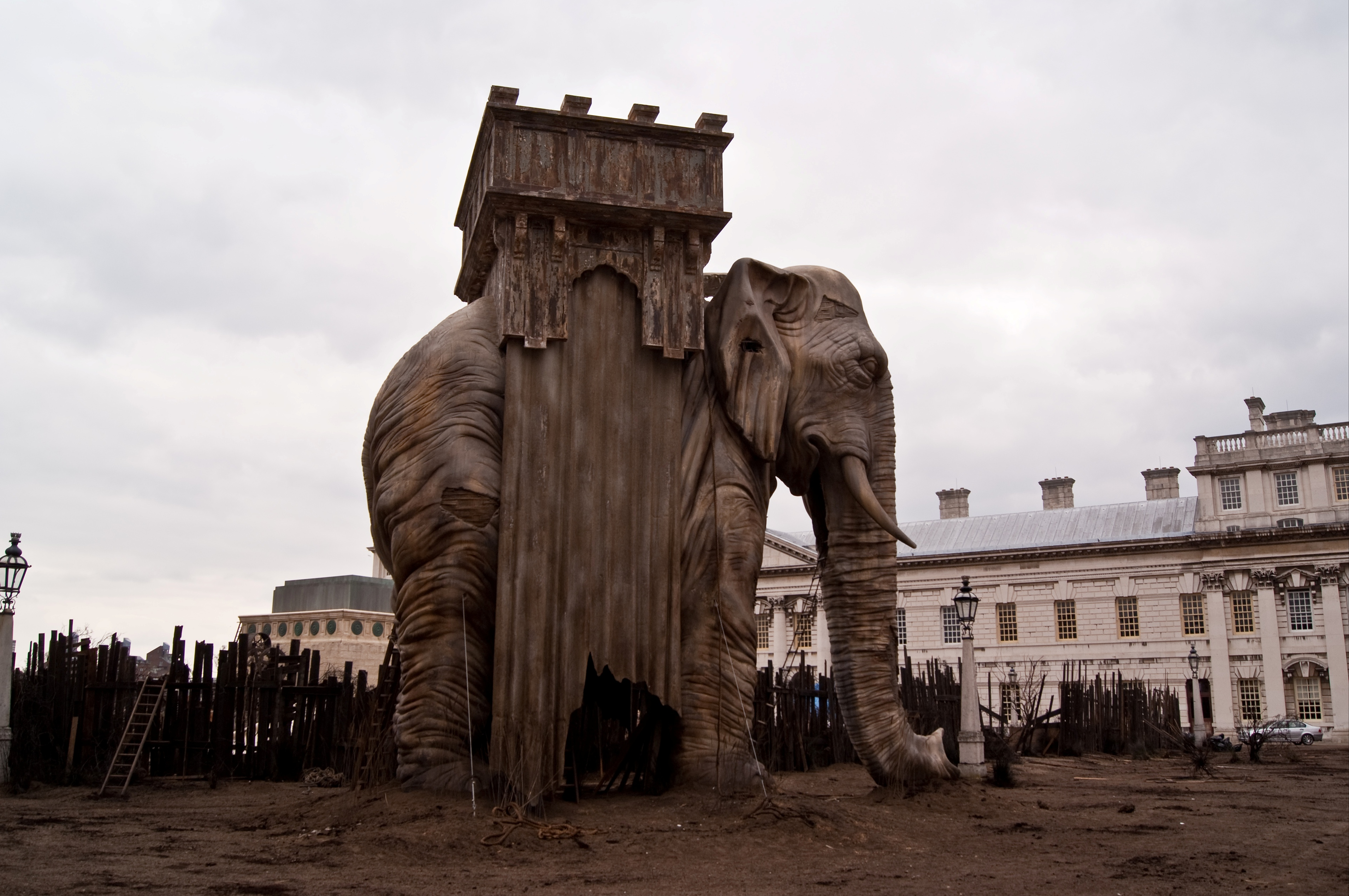 Greenwich Naval College - Les Miserables film set